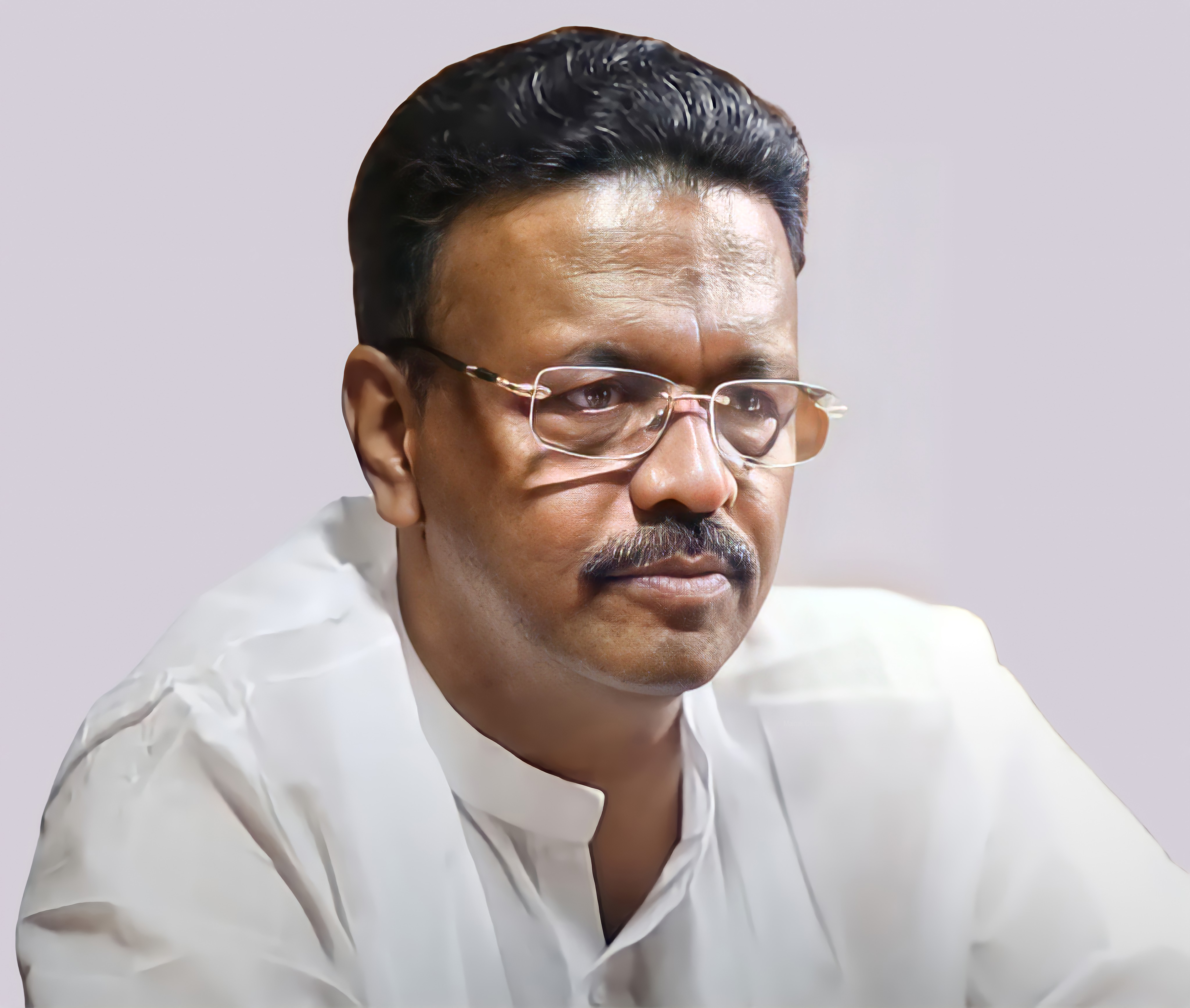 Minister of Municipal Affairs, Government of West Bengal and 39th Mayor of Kolkata